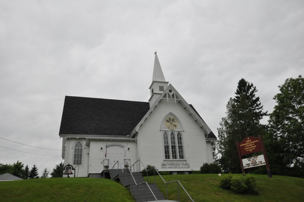 First Congregational Church in Cherryfield, Maine, part of the Cherryfield Historic District.